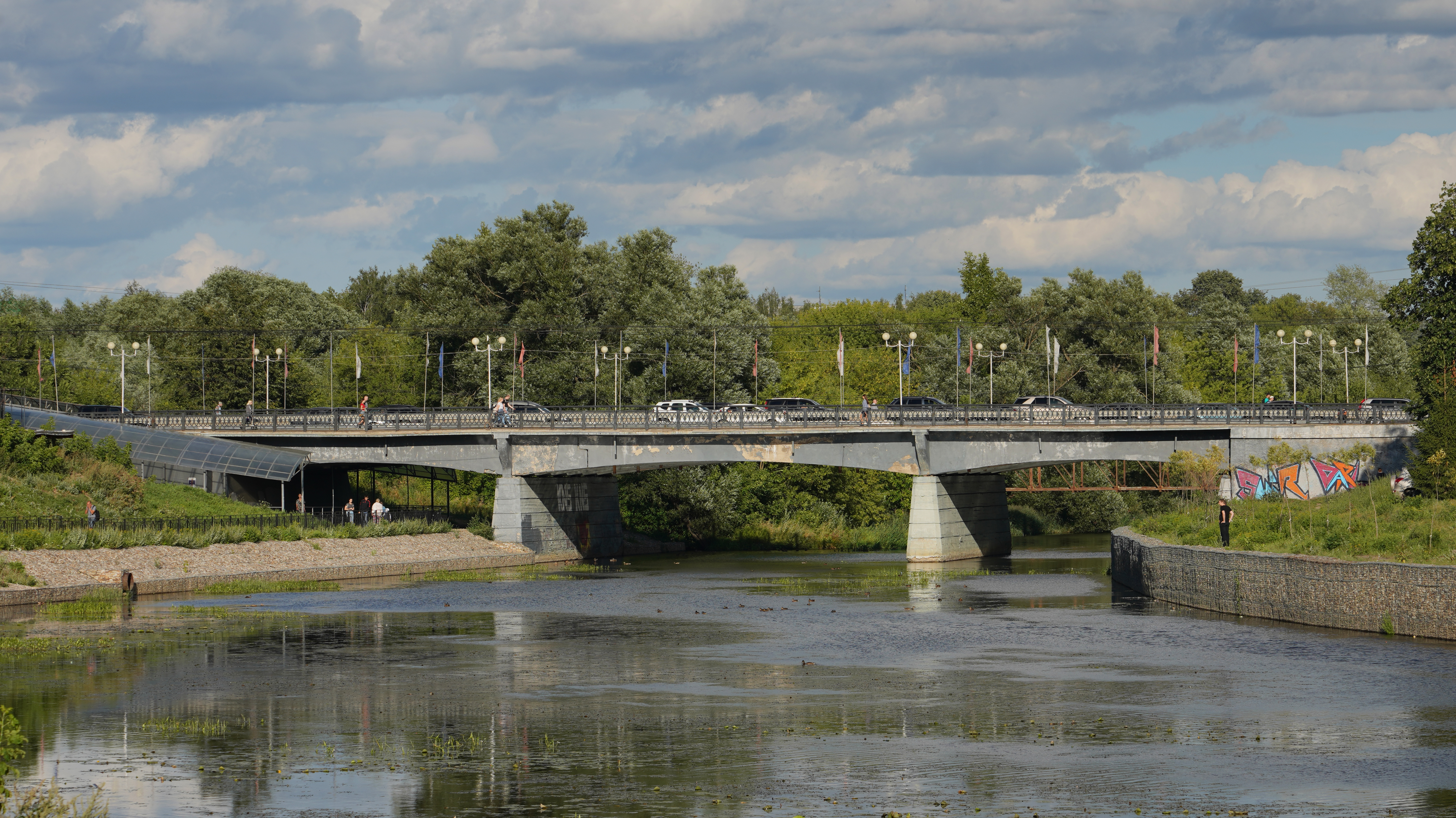 Sokovsky Bridge in Ivanovo, Russia